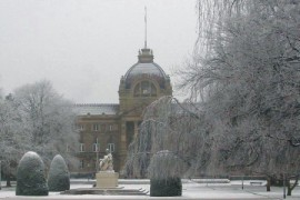 the chamber of appeal